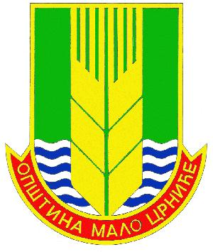 Malo Crniće coats of arms, Serbia